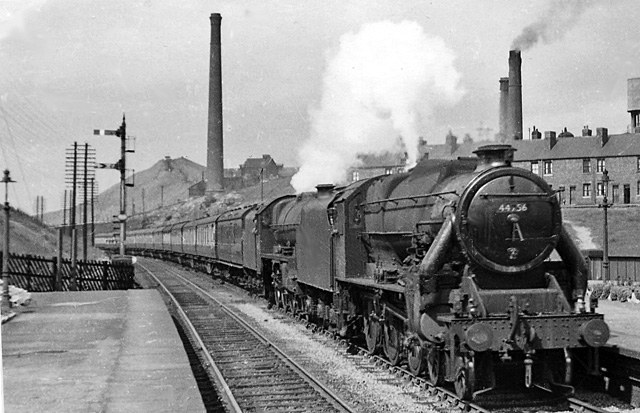 Royston and Notton Station, with train. View northward, towards Normanton and Leeds etc. The Up Thames-Clyde Express (09.20 Glasgow St Enoch to London St Pancras) makes a fine sight, double-headed by Stanier Class 5 (modified with double-chimney and Caprotti valve-gear) No. 44756 piloting 'Jubilee' Class 6 4-6-0 No. 45615 'Malay States'. Behind are the chimneys associated with New Monckton Colliery. In those days (1951), this was the four-track trunk route of the ex-Midland Railway main line between Sheffield and Leeds, through a region that teemed with heavy industry, coal mines, railway yards and junctions, with an immense amount of freight traffic. However, mining subsidence forced express trains to slow down through here. From 1/1/68 all passenger services ceased, Royston & Notton station closed and since 9/68 nothing has passed this way and the traffic that is left runs on other lines - if not by the M1! As we all know, since the 1980s the mines have been closed and industry along with rail freight traffic is a shadow of what it was.